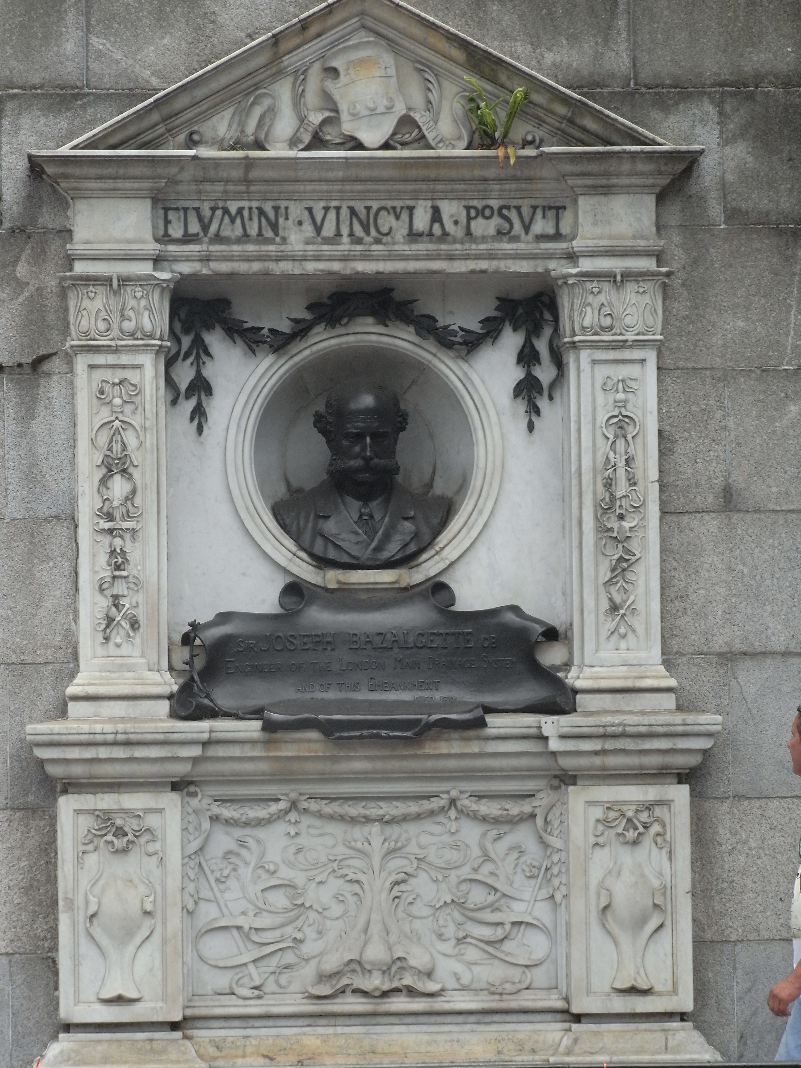 Memorial to architect Joseph Bazalgette of Thames embankments.